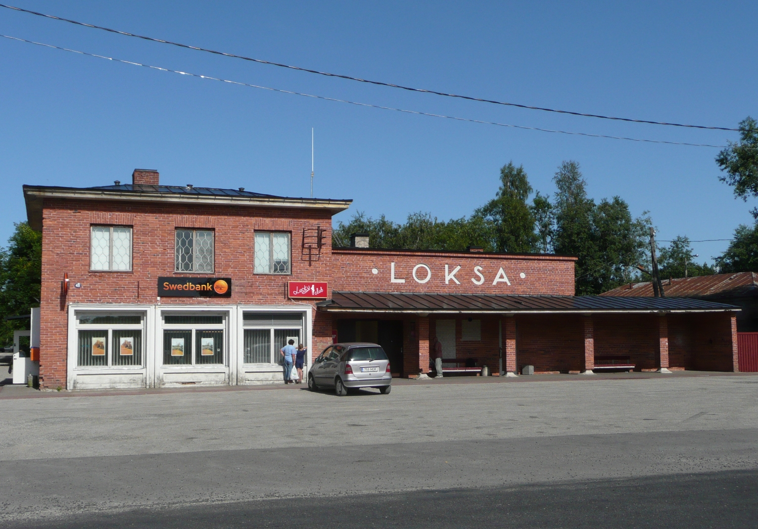 The building of Loksa Bus Station, built in 1938.